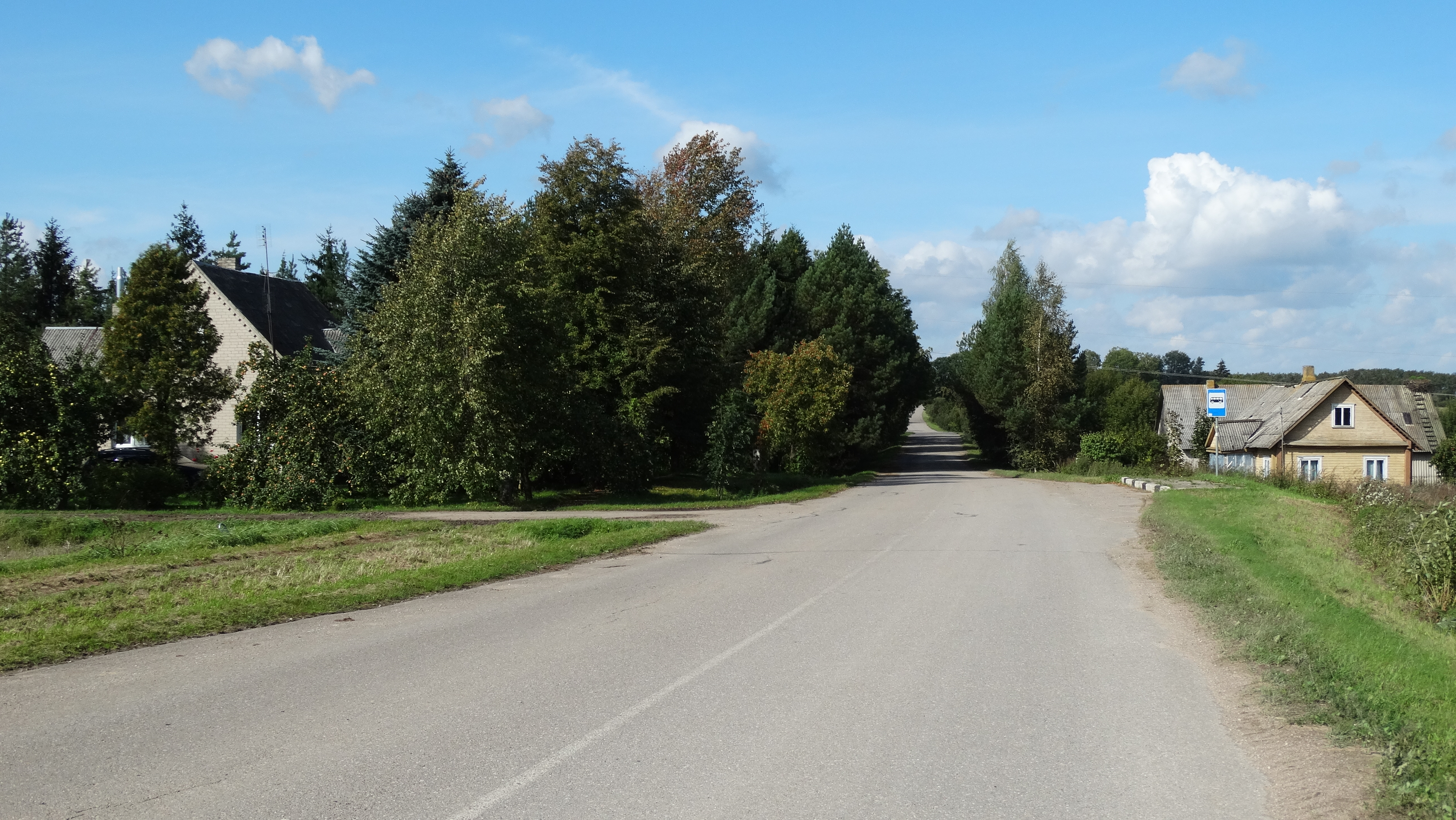 Didžiakaimis, Anykščiai District, Lithuania